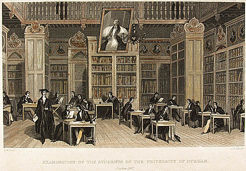 Painting of an exam in Cosin's Library, Durham University in 1842